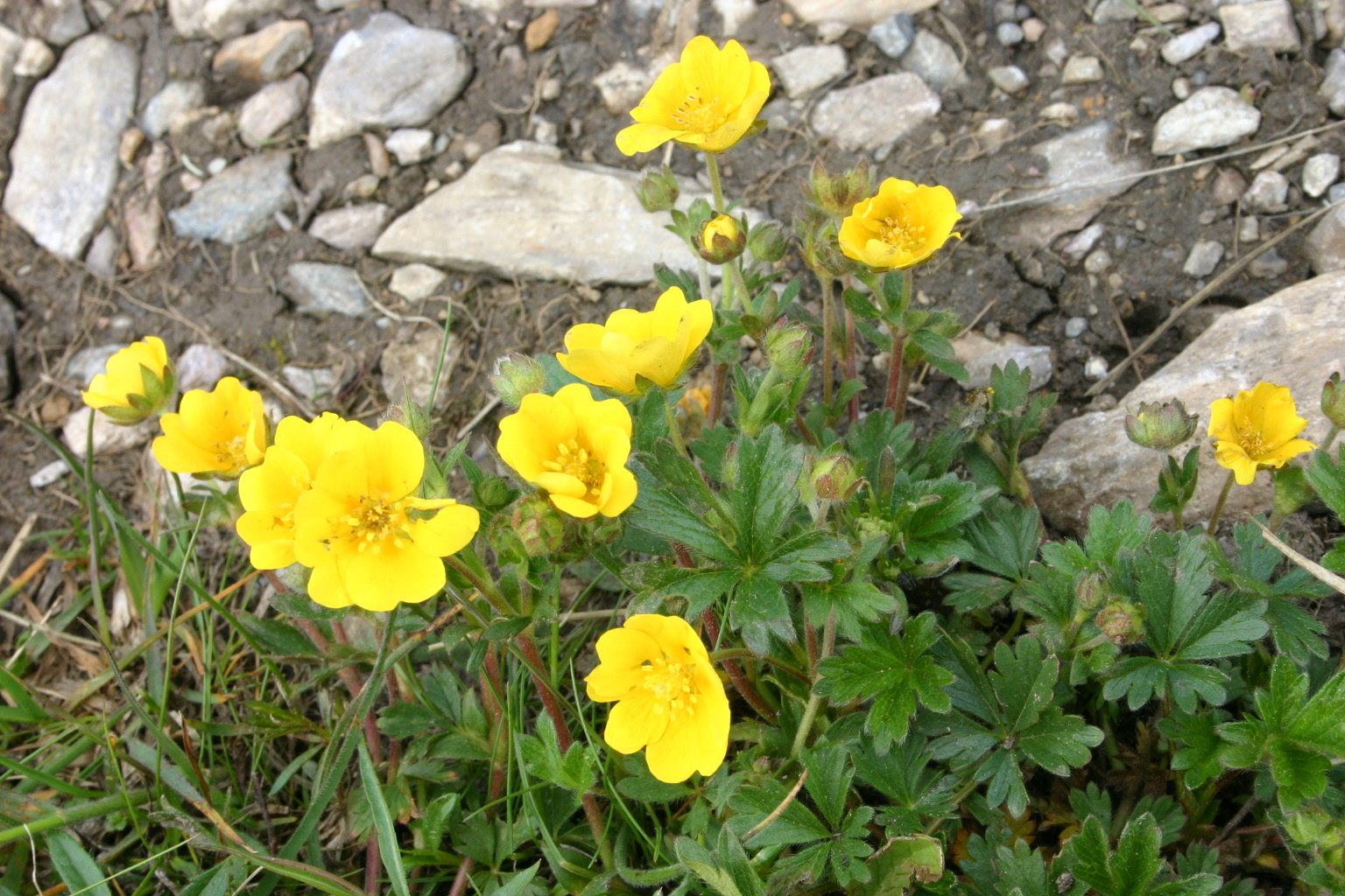 Potentilla crantzii